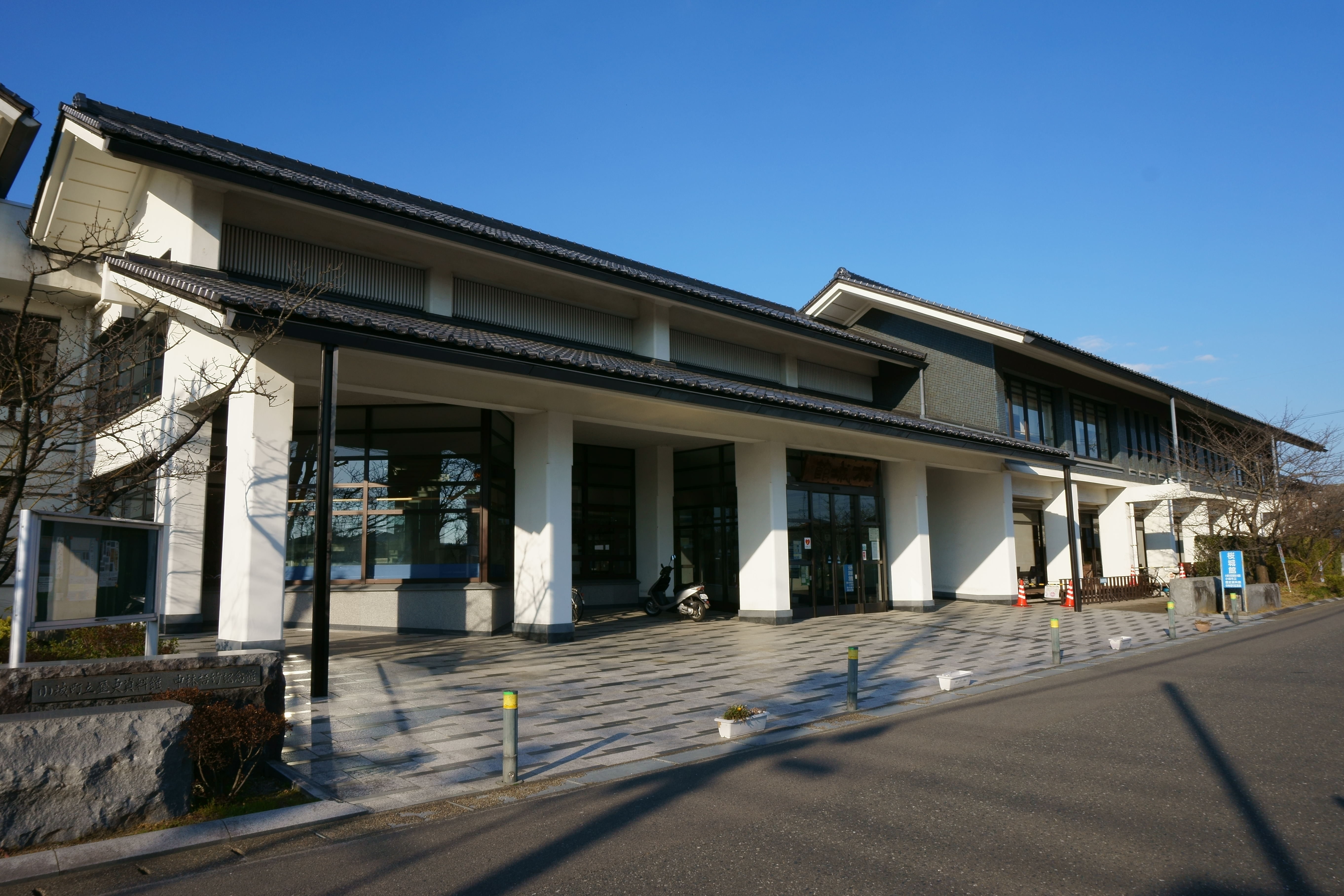 Ohjōkan, a complex of libraly and museums, in Ogi city, Saga prefecture.